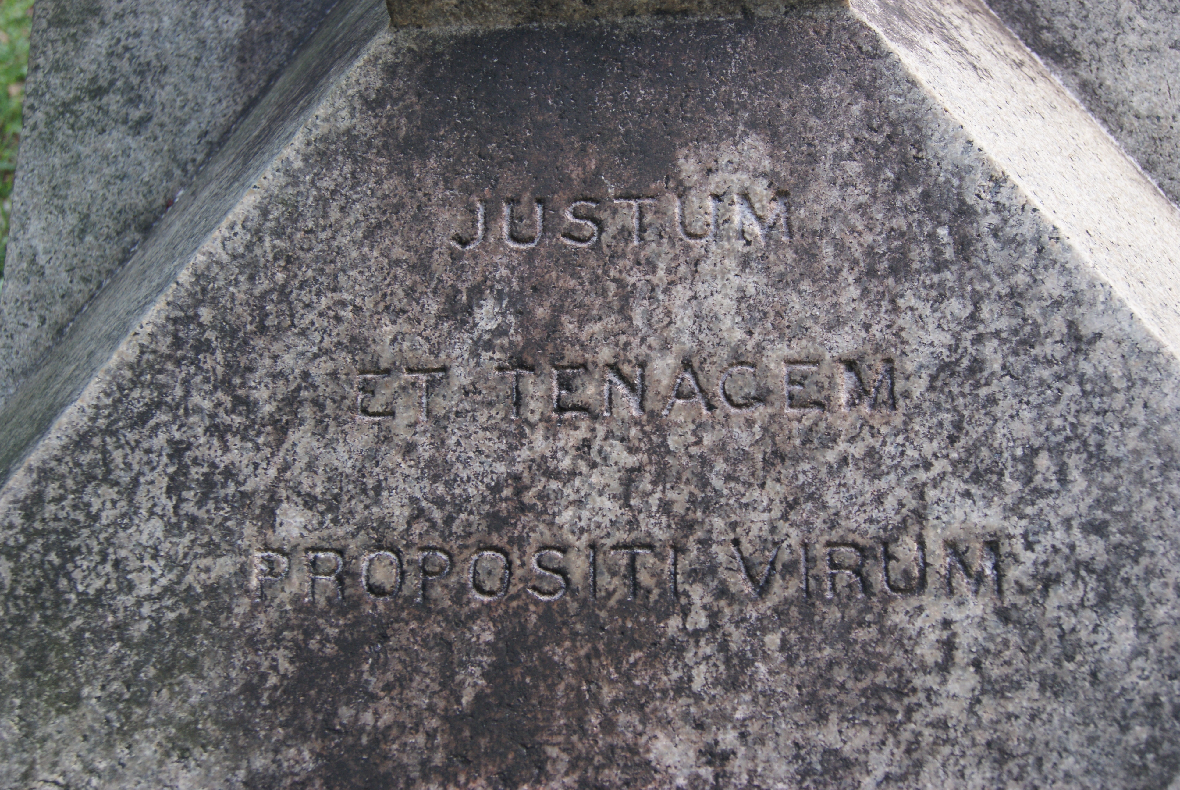 A close-up of the inscription on the rear of the gravestone of Elliot Charles Bovill (1848? – 24 March 1893), Chief Justice of the Straits Settlements, which was relocated from the Bukit Timah Cemetery to the north-east corner of Fort Canning Green, Singapore. The inscriptions on the gravestone read: "(left side) TO THE MEMORY OF / ELLIOT CHARLES BOVILL KNIGHT BACHELOR / CHIEF JUSTICE OF THIS COLONY // (front) DIED OF CHOLERA / CONTRACTED / WHILE ON DUTY / MARCH 24 1893 / AGED 45 // (right side) THIS STONE WAS PLACED BY HIS / BROTHER JUDGES, THE BAR AND / THE OFFICERS OF THE SUPREME / COURT OF THE STRAITS SETTLEMENTS // (rear) JUSTUM ET TENACEM PROPOSITI VIRUM [a man just and steadfast in purpose: Horace, Odes, III.3]": see Alan Harfield (1988) Early Cemeteries in Singapore, London: British Association for Cemeteries in South Asia, p. 301 ISBN: 978-0-907799-19-1.